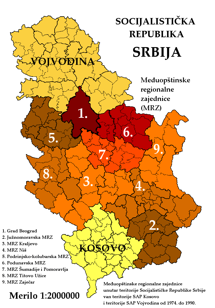 Intermunicipal regional communities of the Socialist Republic of Serbia outside of the Autonomous Province of Kosovo and of the Autonomous Province of Vojvodina that existed from 1974. till 1990.